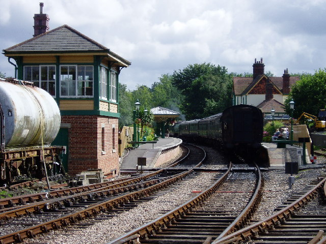 Kingscote Station, Bluebell Railway